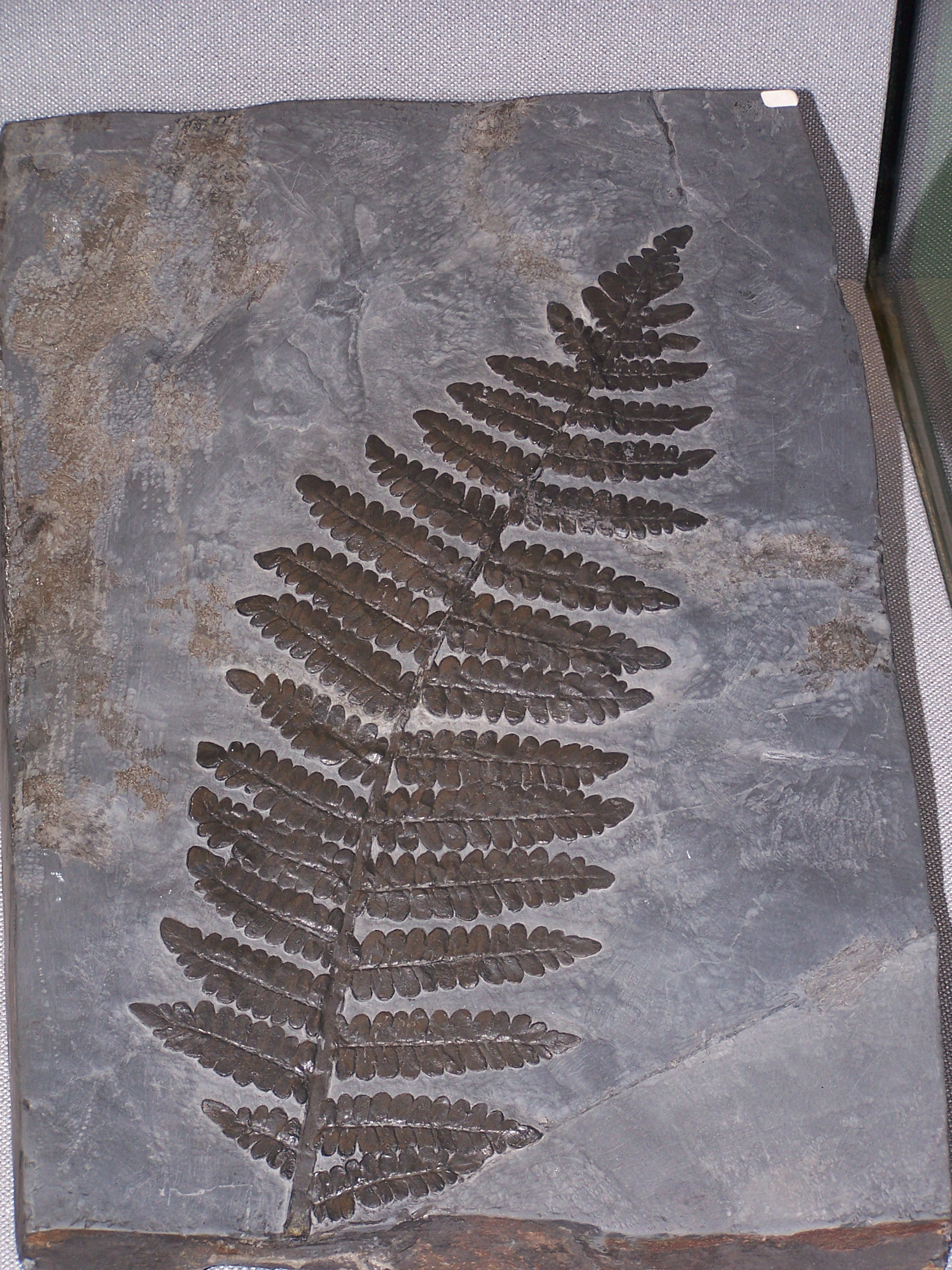 Neuropteris, upper Carboniferous